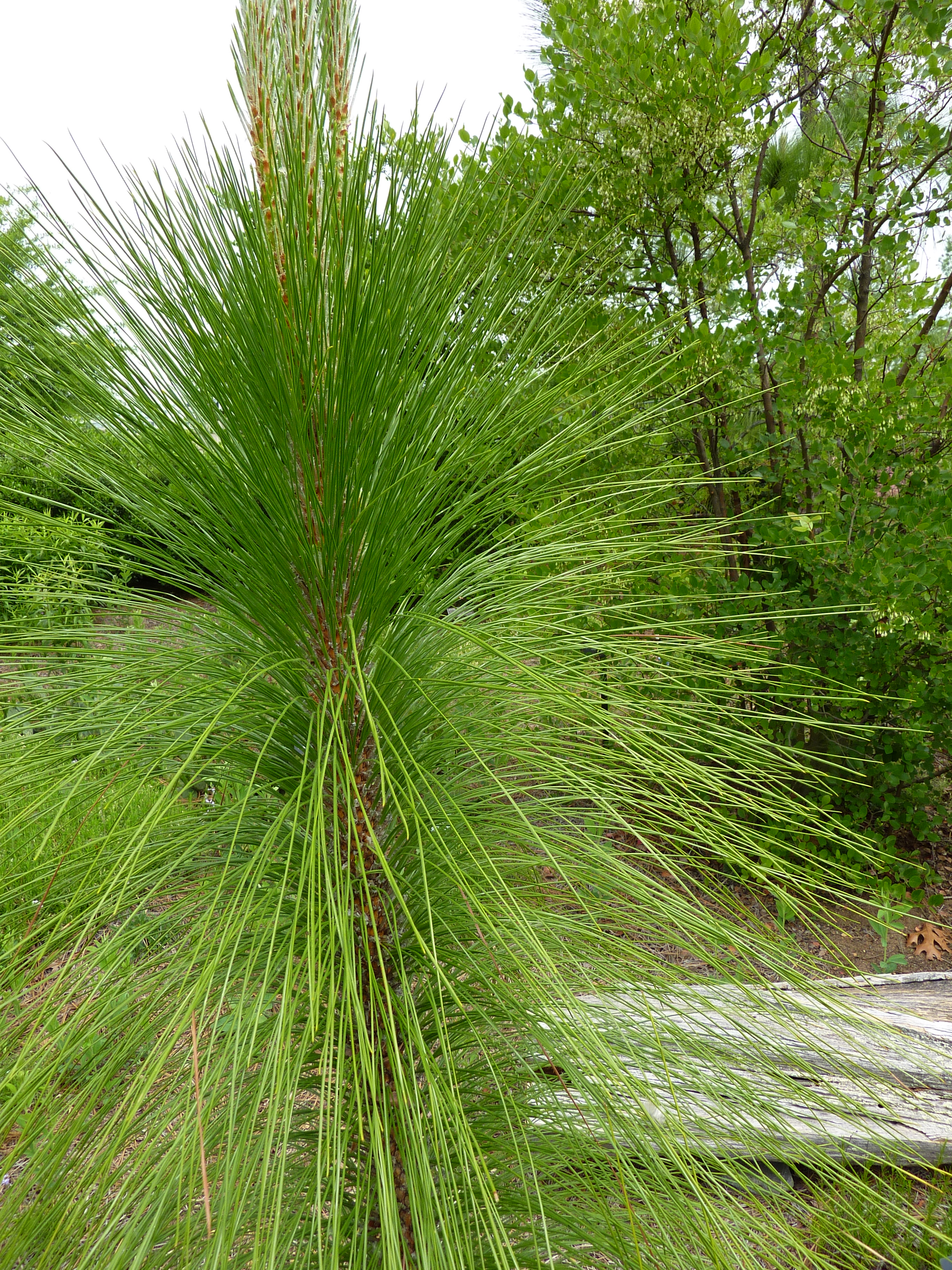 Pinus palustris or Longleaf pine in the United States Botanic Garden